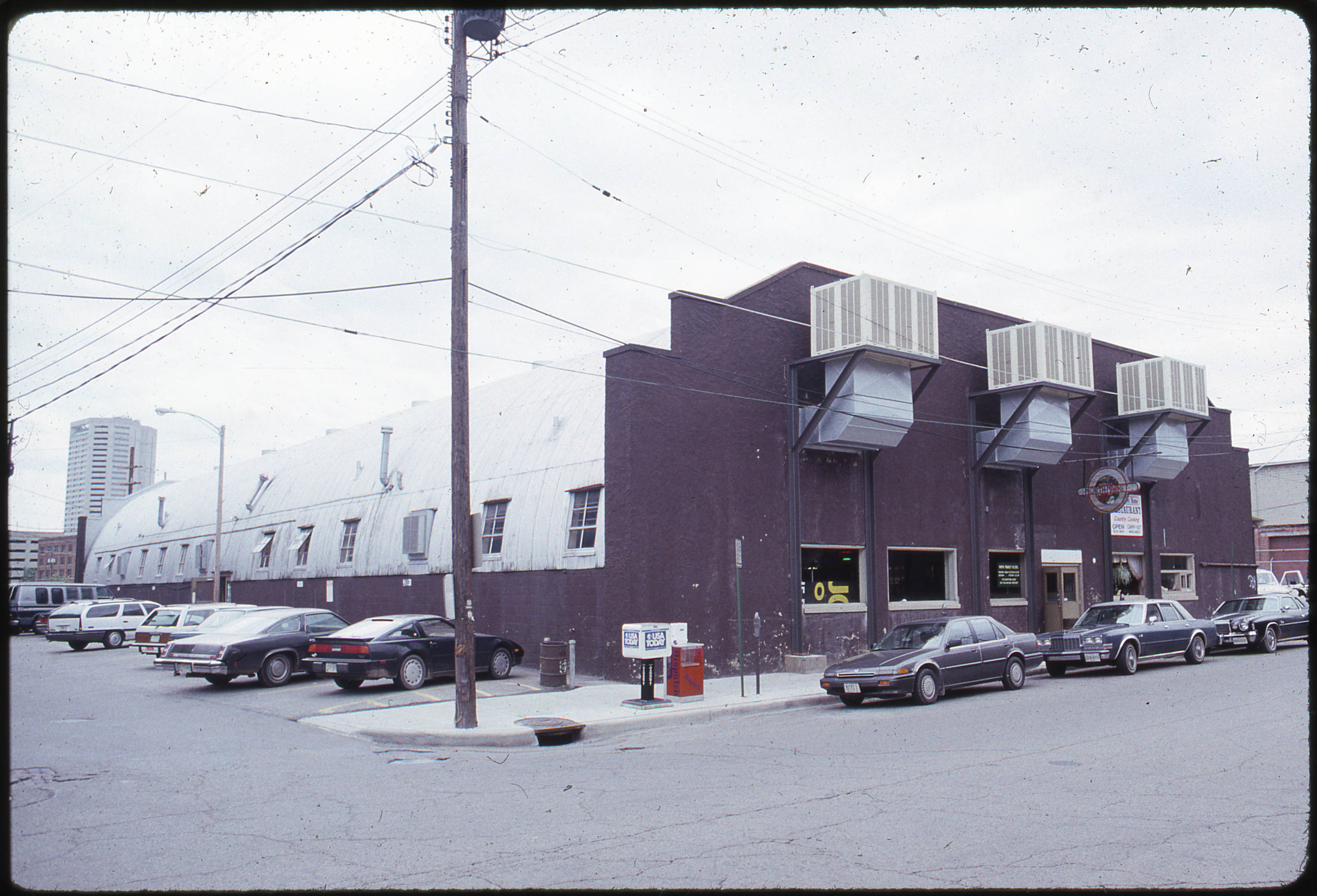 "A view looking southwest of the Spruce Street entrance on the north end of the North Market. This Quonset hut-style structure was constructed in 1948 after the first North Market building was destroyed by fire on February 6, 1948. It opened in October of that year and served as the North Market until November 11, 1995, when it closed so that the Market could move next door into the building at 59 Spruce Street. The Quonset hut was razed after Thanksgiving of that year to make way for the Market's parking lot."